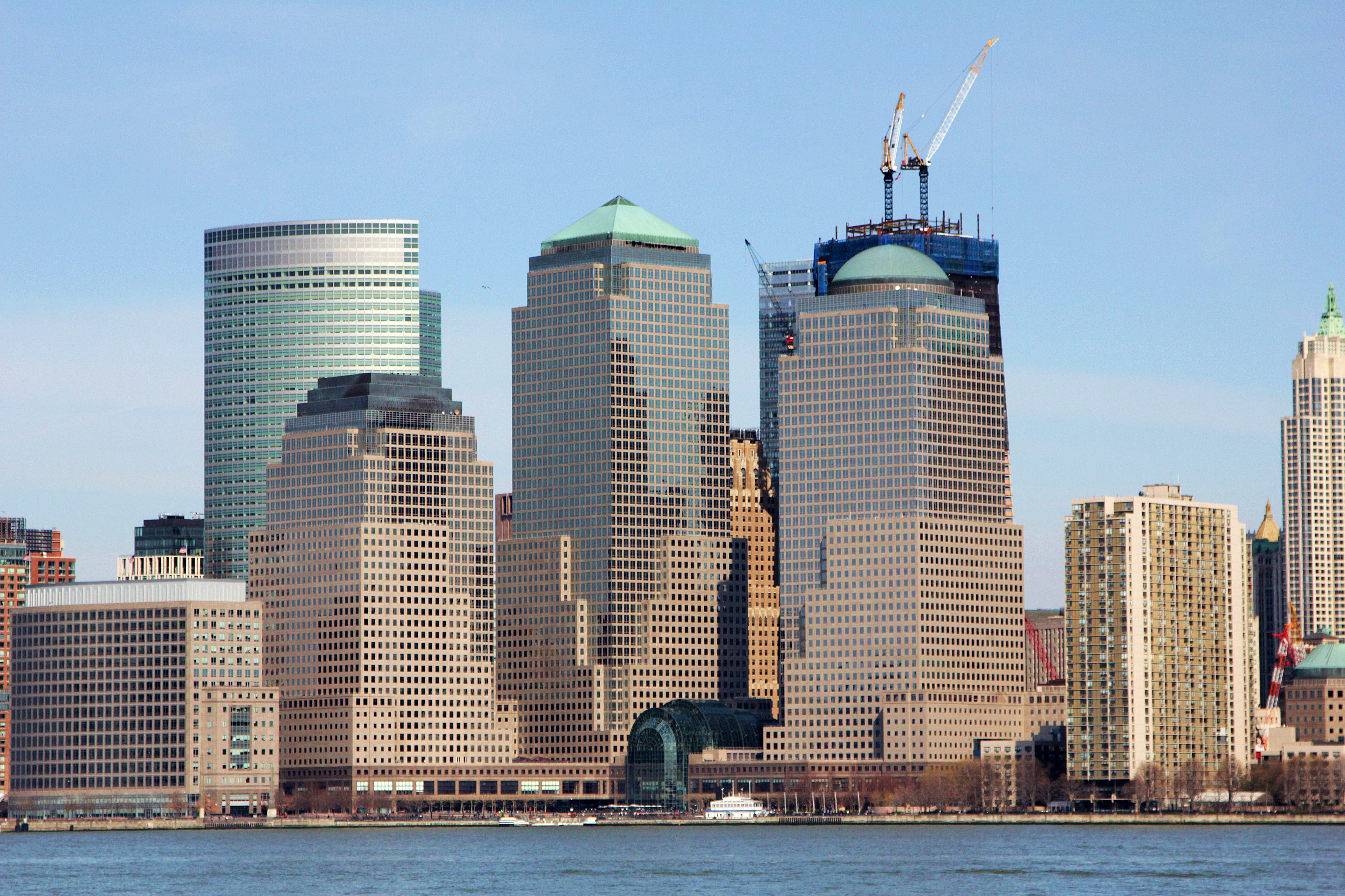 View of the World Financial Center in Lower Manhattan, NYC, NY